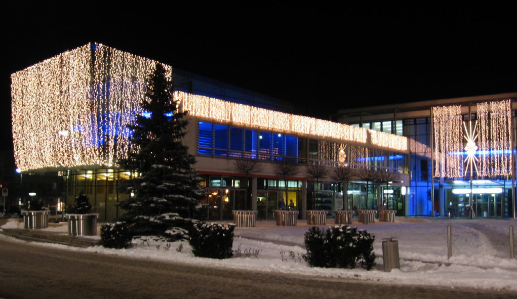 Leonding, City Hall, with Christmas illumination